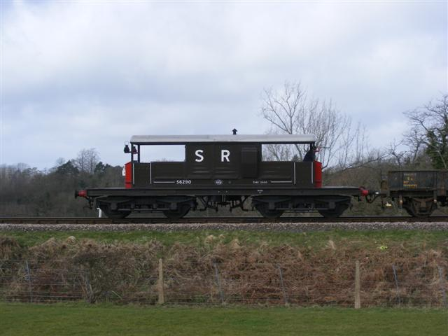 SR Queen mary brake van at the Bluebell Railway